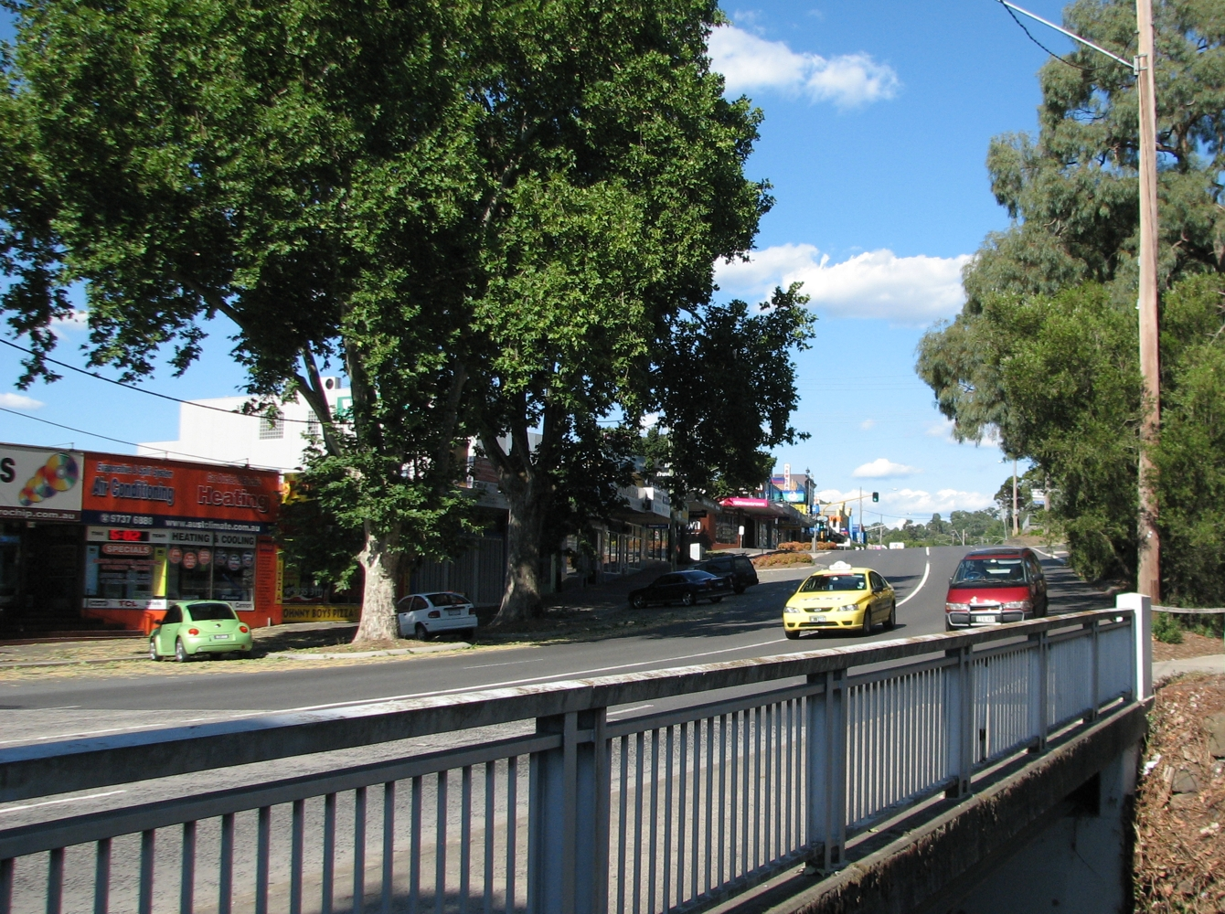 Bridge over Olinda Creek, Maroondah Highway, Lilydale Victoria, Australia